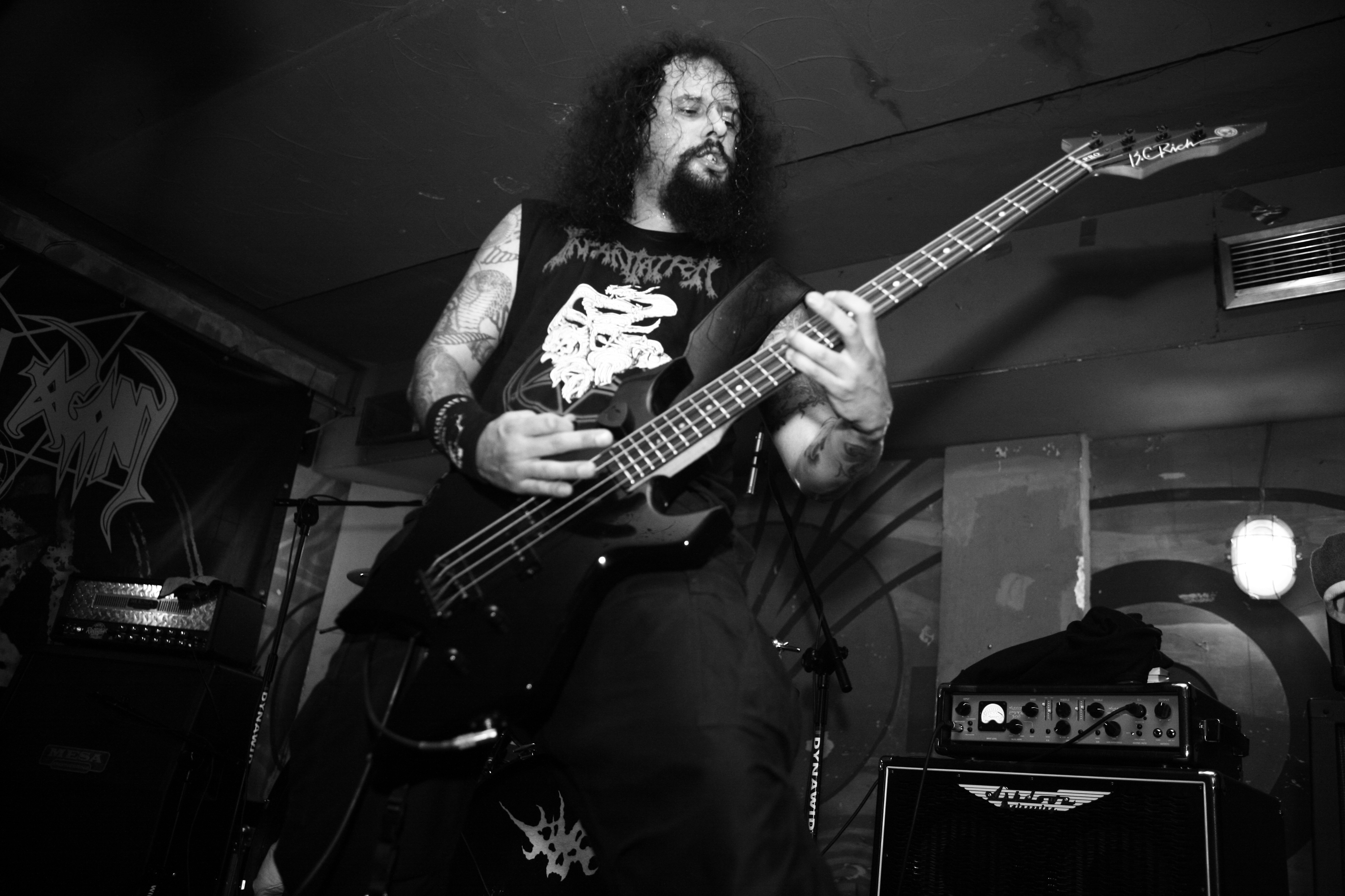 Christ Agony